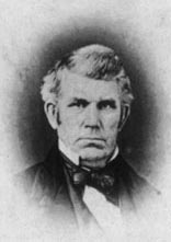 From the source provided, it can not be clearly determined that this is a work of the U.S. Federal Government. It is more likely an image taken from an old book, but without better sourcing information, it is impossible to tell. older â‰ wiser 20:32, 10 April 2007 (UTC)